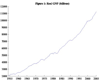 파일:Businesscycle figure1.jpg